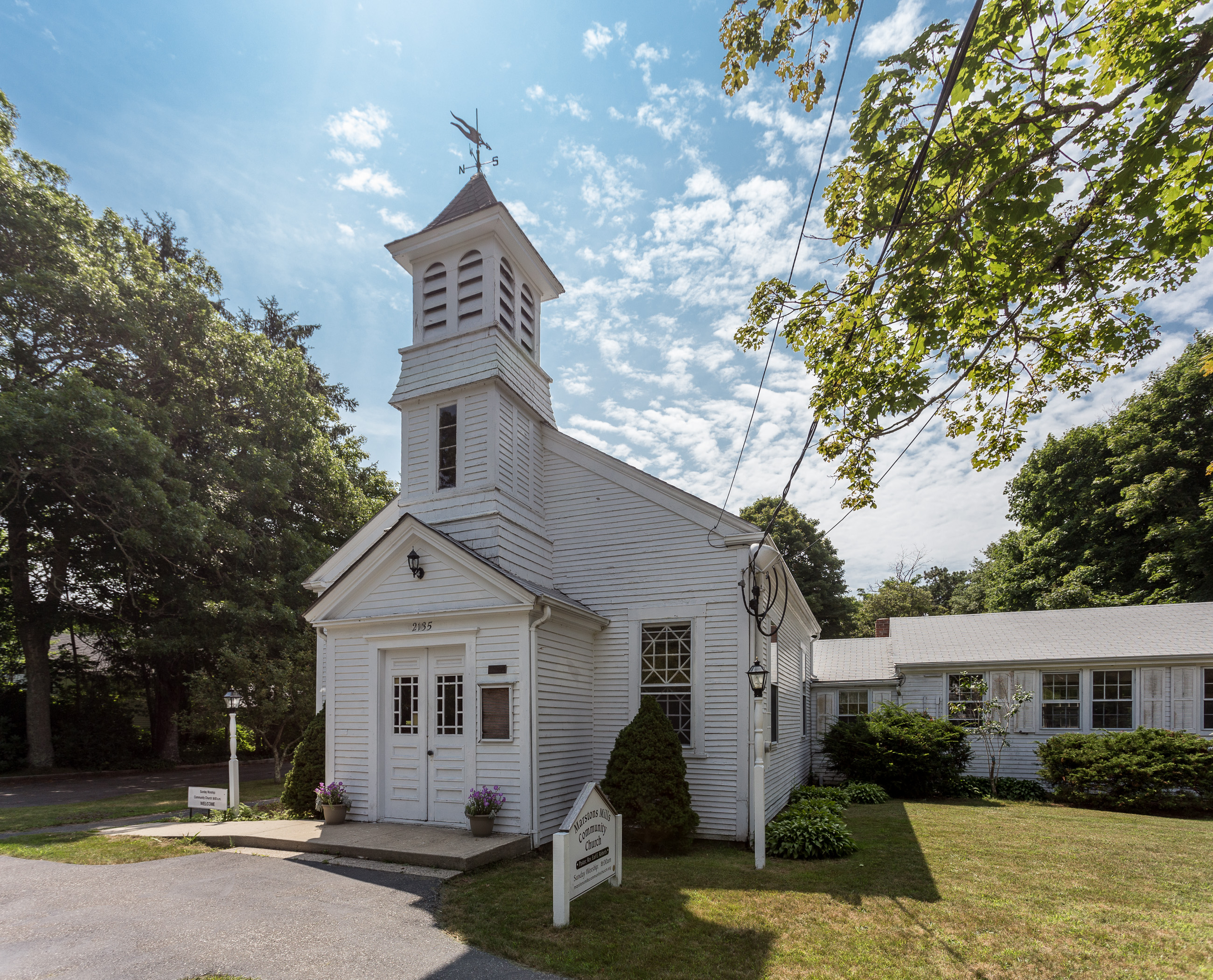 The Marston Mills Community Church, formerly the Methodist Church, is a historic church building on Main Street in the Marstons Mills village of Barnstable, Massachusetts. The white clapboard church was built in the town of Yarmouth, and moved to Marstons Mills in 1830.